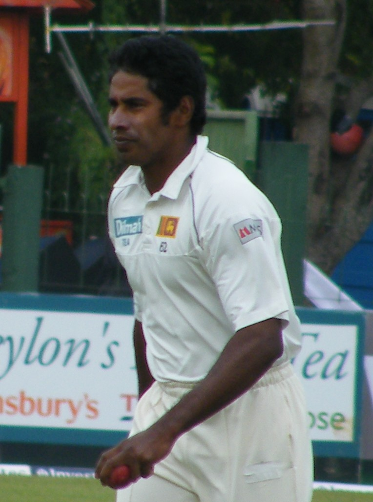 Chaminda Vaas in action, Sri Lanka vs England, 2nd Test, December 2007